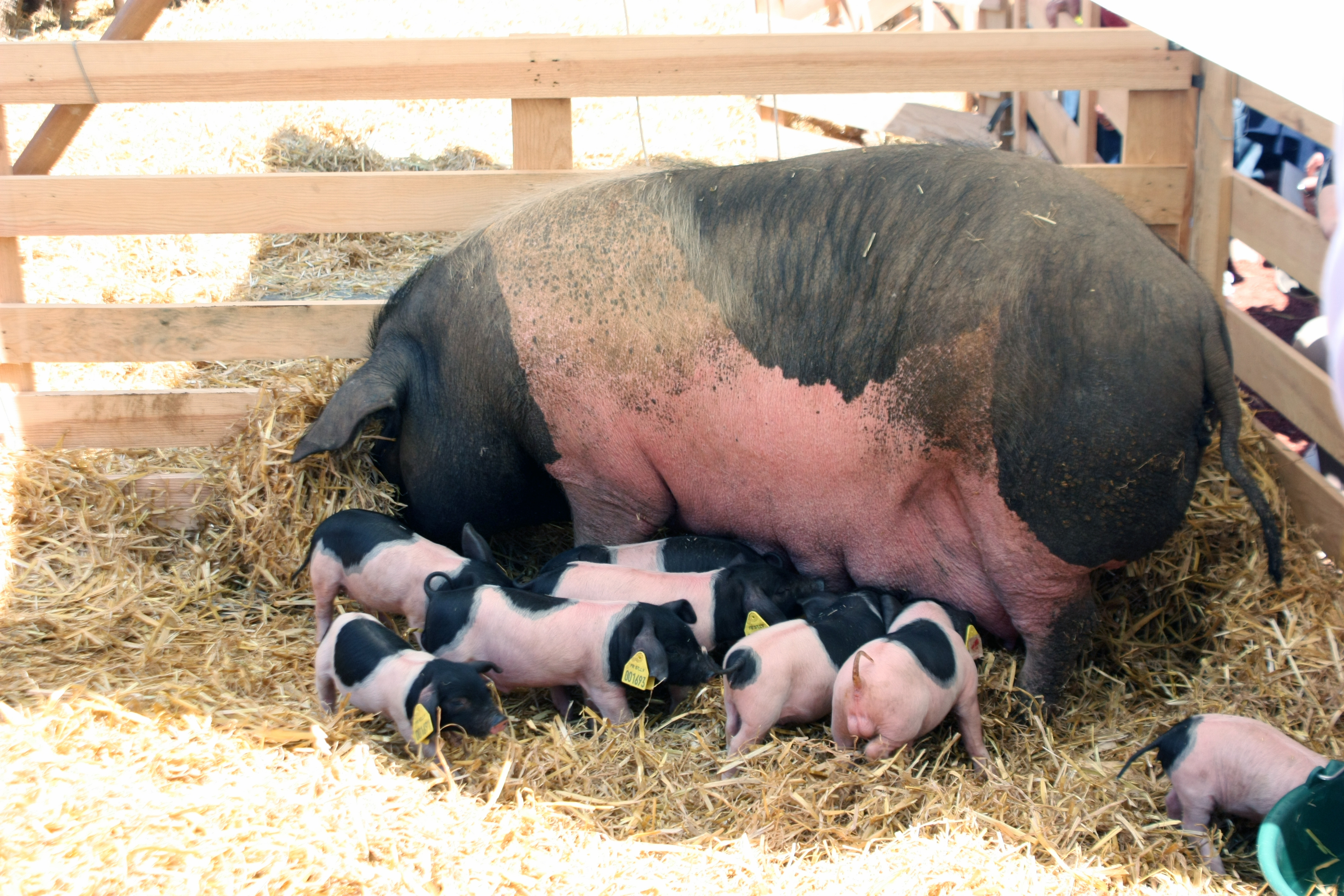 Sow and its piglets.